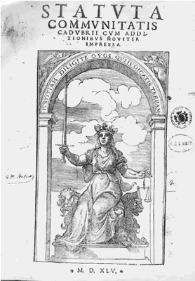 The first page of the Statuto del Cadore